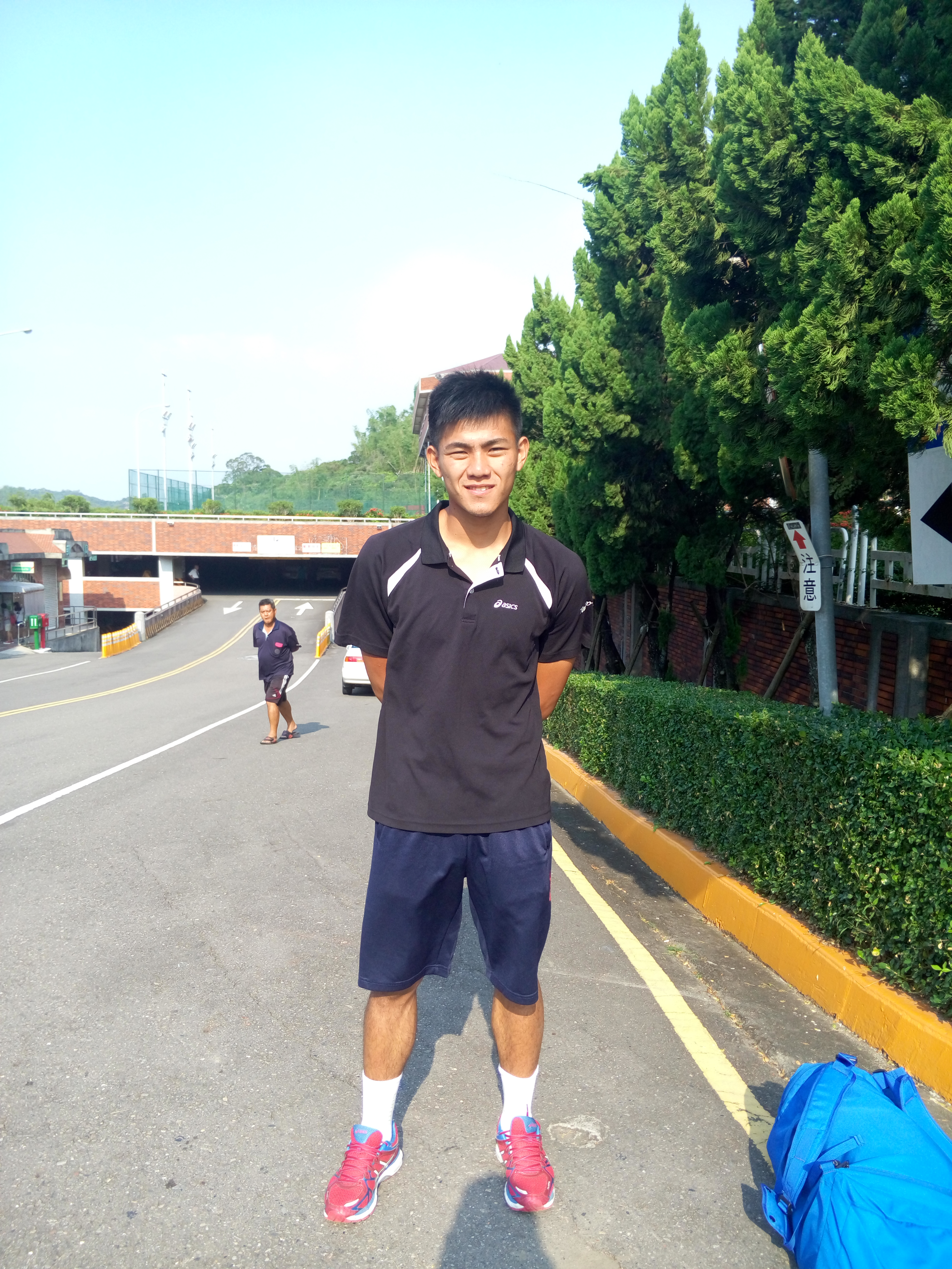 Lu Kun-Chi in Taipower